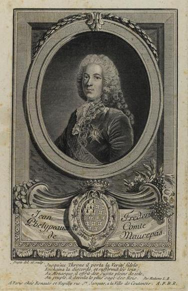 Portrait of the Count de Maurepas, minister of the navy of Louis XV until 1749.